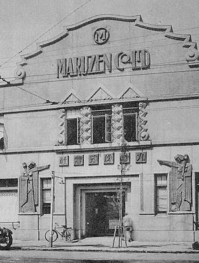 Maruzen building in Taisho and Pre-war Showa eras